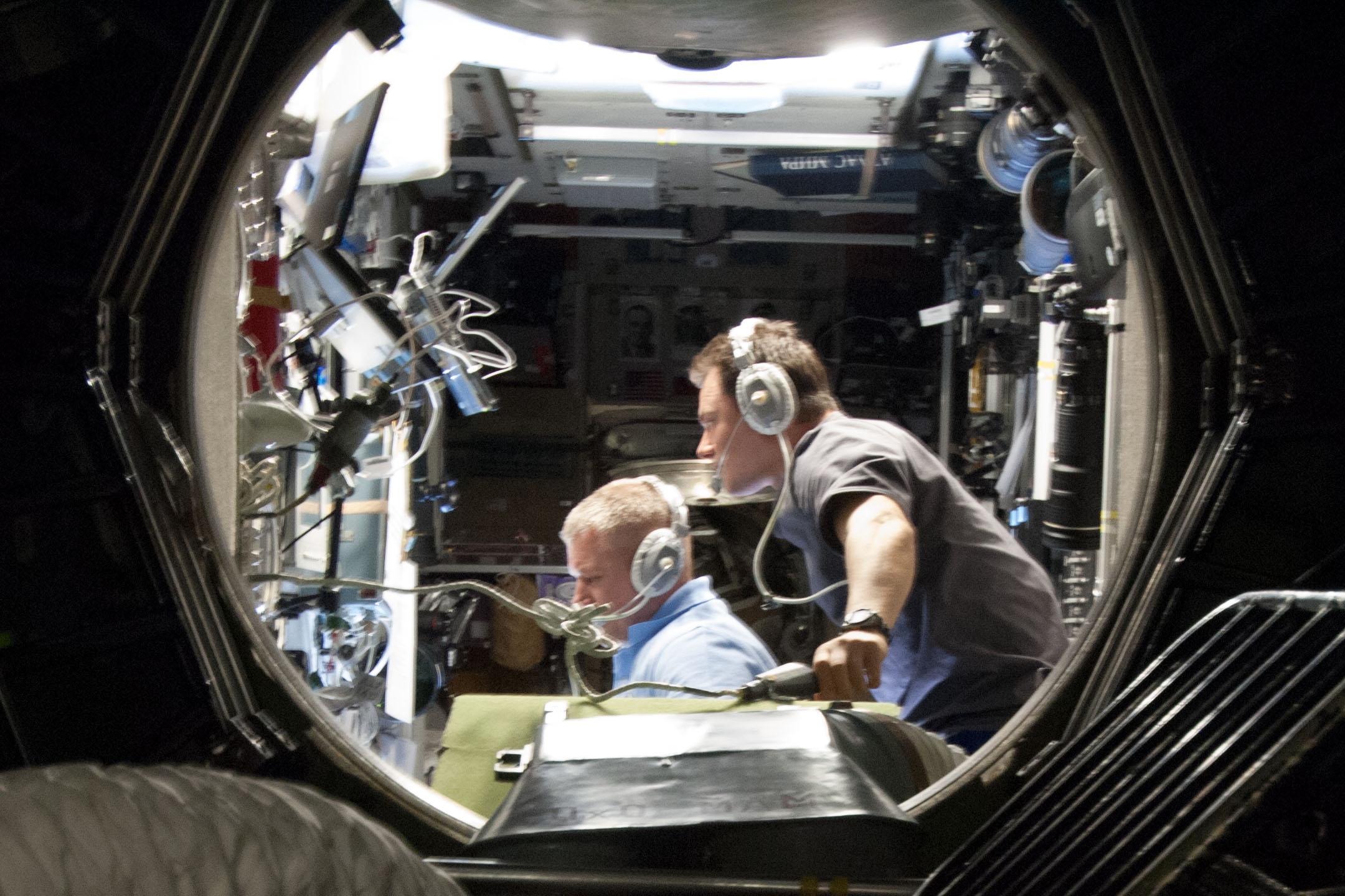 Russian cosmonauts Oleg Novitskiy (left) and Roman Romanenko, both Expedition 34 flight engineers, monitor data at the manual TORU docking system controls in the Zvezda Service Module of the International Space Station during approach and docking operations of the unpiloted ISS Progress 50 resupply vehicle. Progress 50 docked with the station's Pirs docking compartment at 3:35 p.m. (EST), delivering 1,764 pounds of propellant, 110 pounds of oxygen and air, 926 pounds of water and 3,000 pounds of spare parts, experiment hardware and logistics equipment --- 2.9 tons of supplies in all. The space freighter launched from the Baikonur Cosmodrome in Kazakhstan at 9:41 a.m. (8:41 p.m. Kazakhstan time) on an accelerated, four-orbit journey to rendezvous with the station.